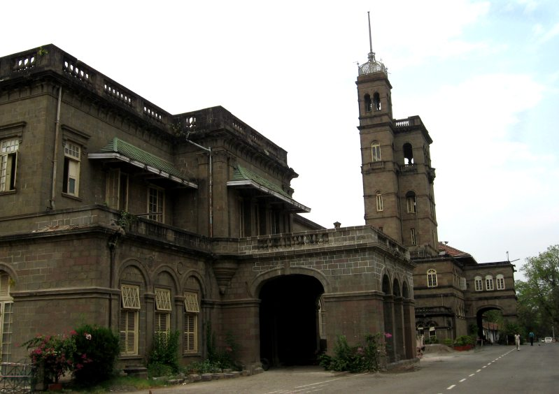 Pune University, photograph by Mukul Hinge, personal photograph, free to use.